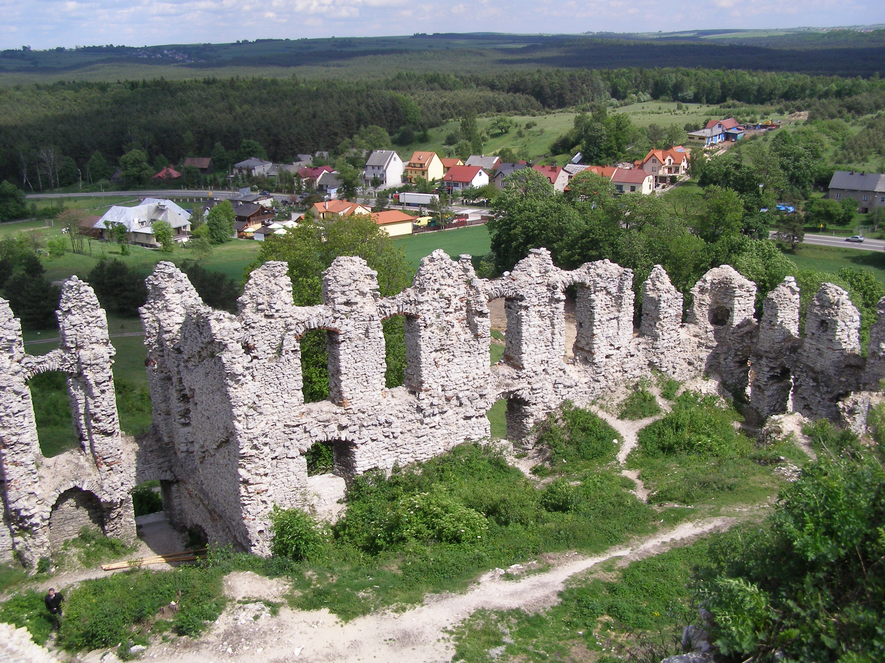 Rabsztyn - castle ruins